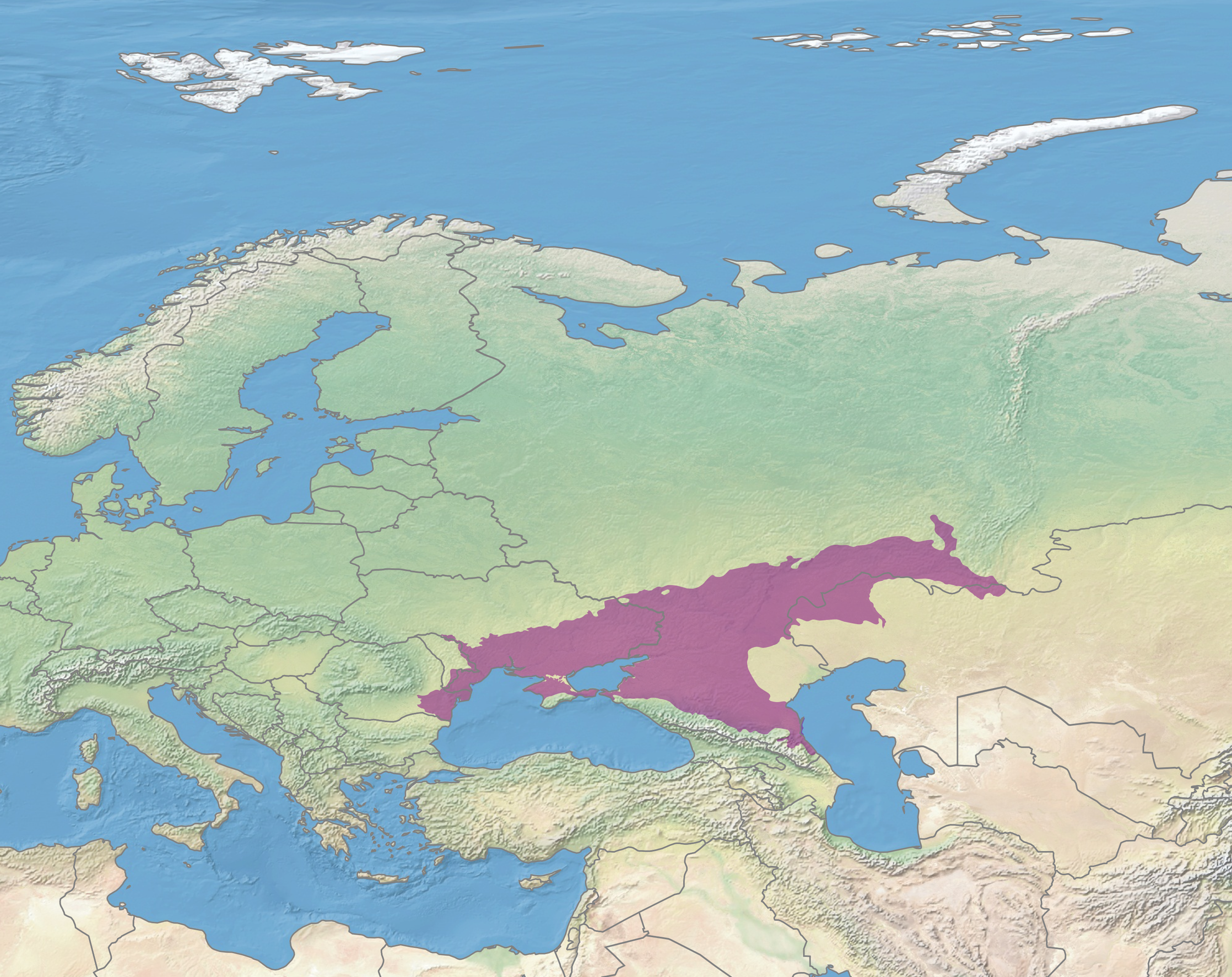 Ecoregion PA0814: Pontic steppe